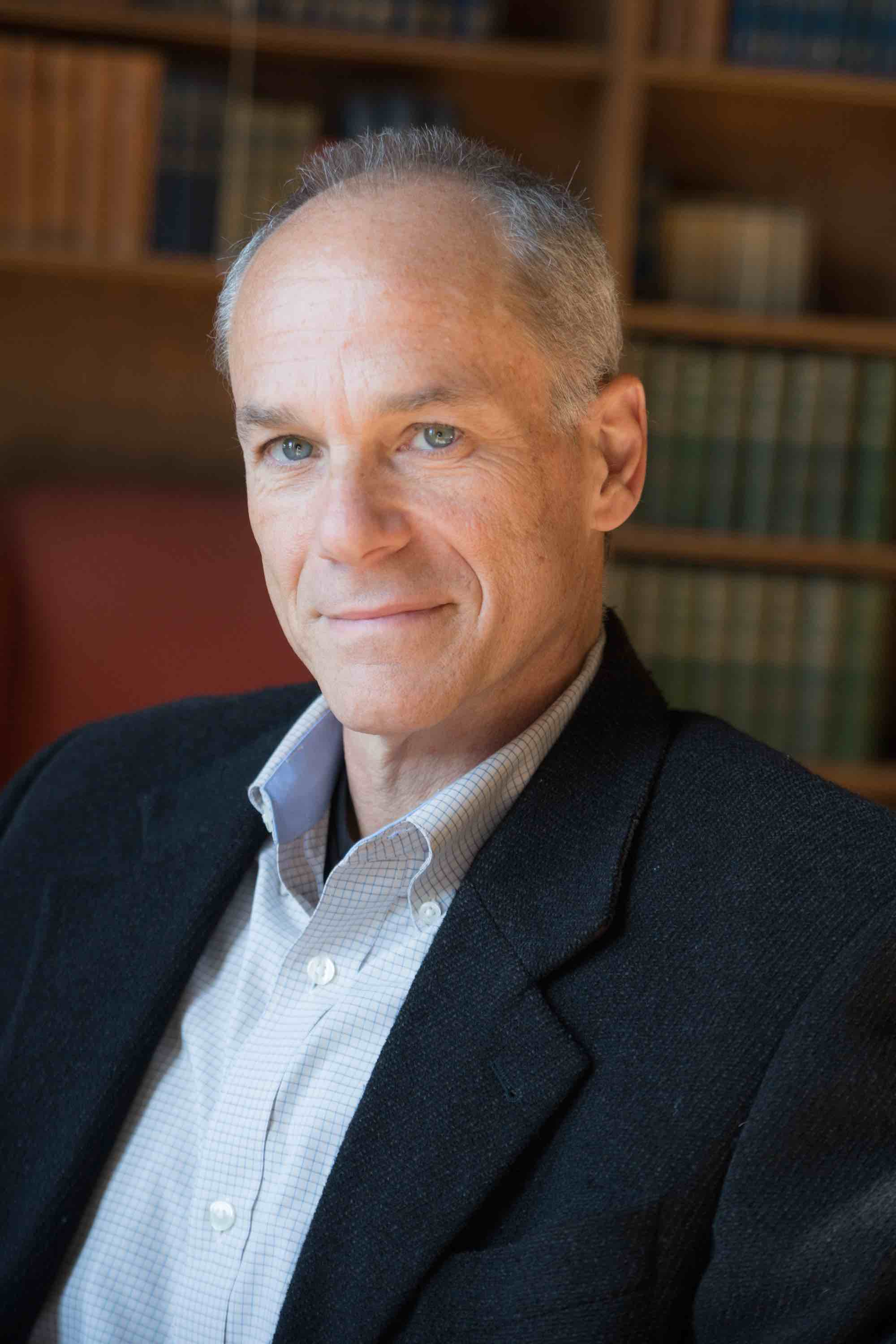 my closeup photo